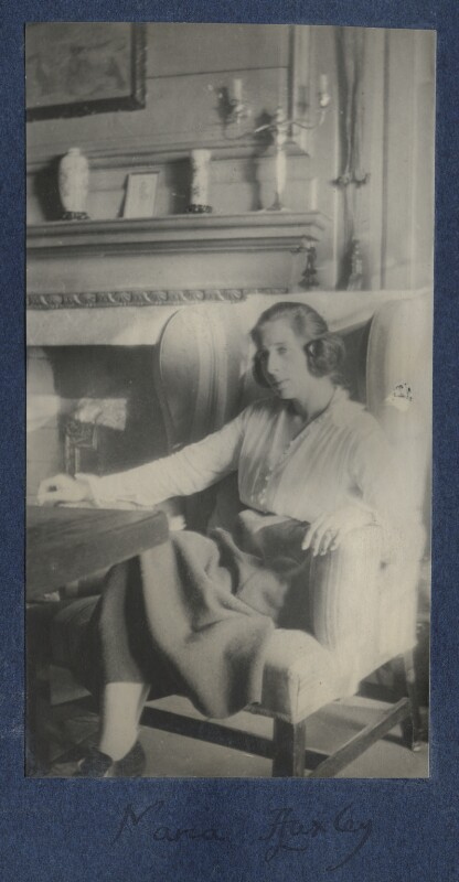 Maria Huxley (née Nys) by Lady Ottoline Morrell vintage snapshot print, 1921 4 3/8 in. x 2 3/8 in. (110 mm x 61 mm) image size Purchased with help from the Friends of the National Libraries and the Dame Helen Gardner Bequest, 2003